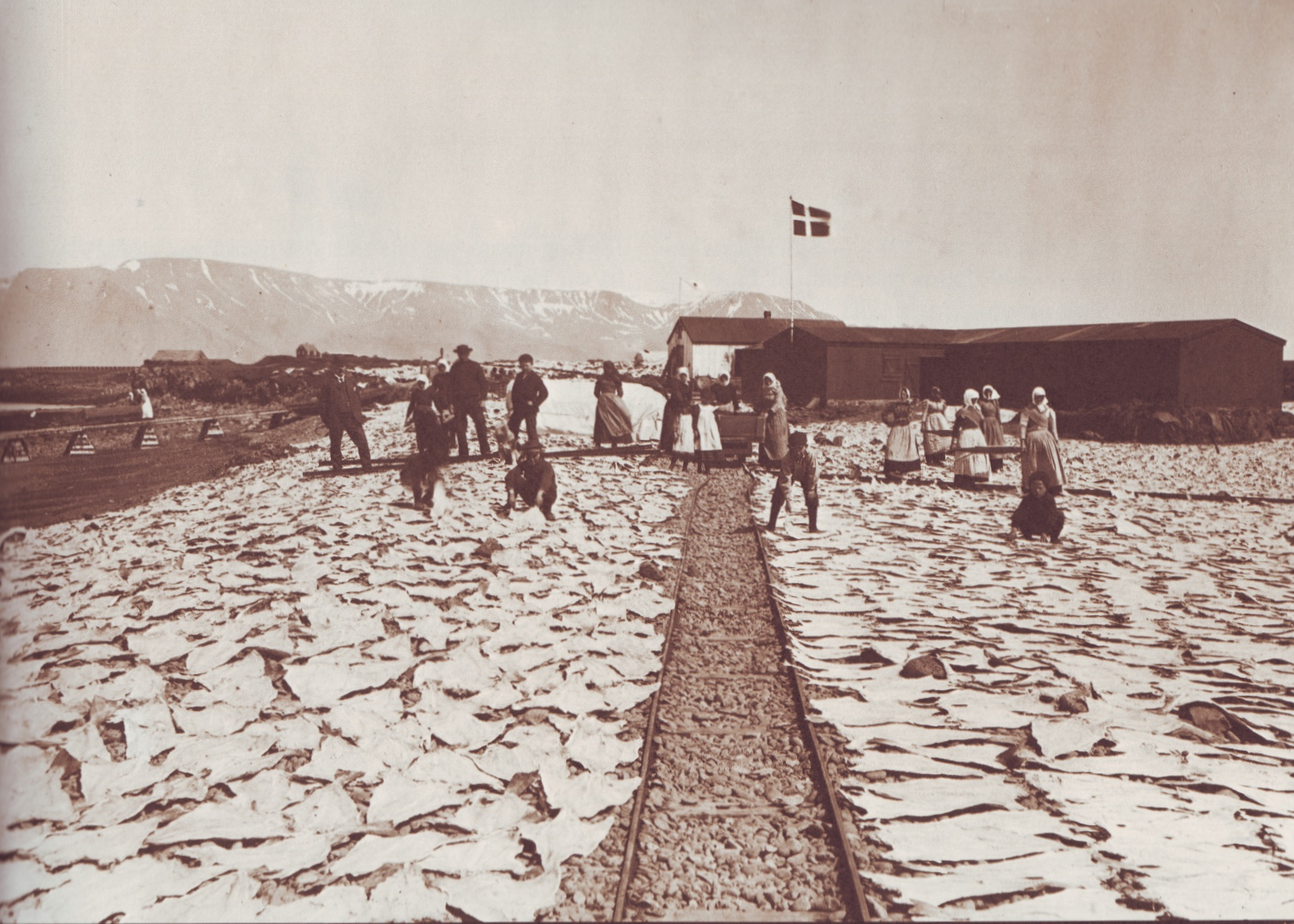 Drying of salt cod in Kirkjusandur, Iceland